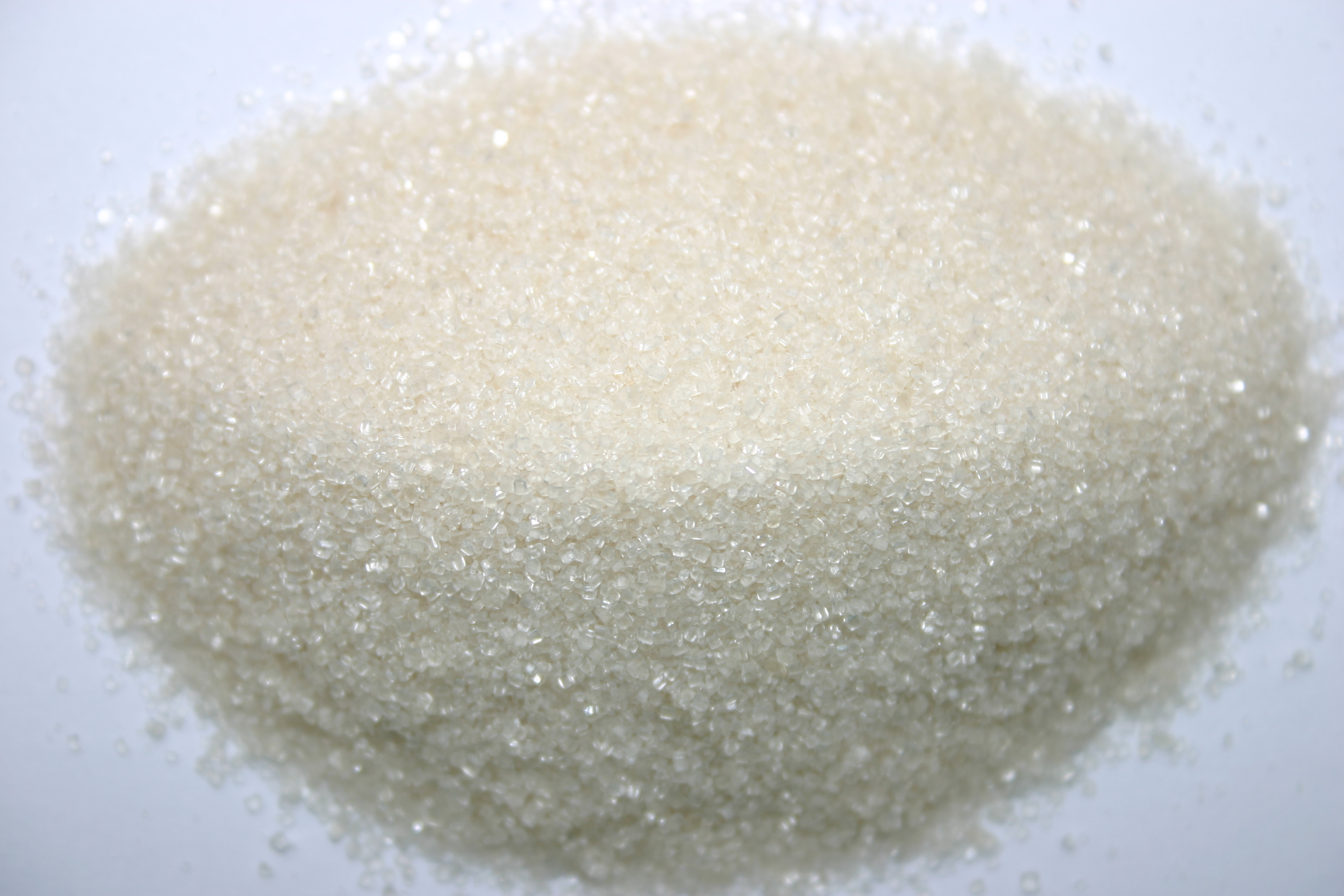 raw cane sugar, light